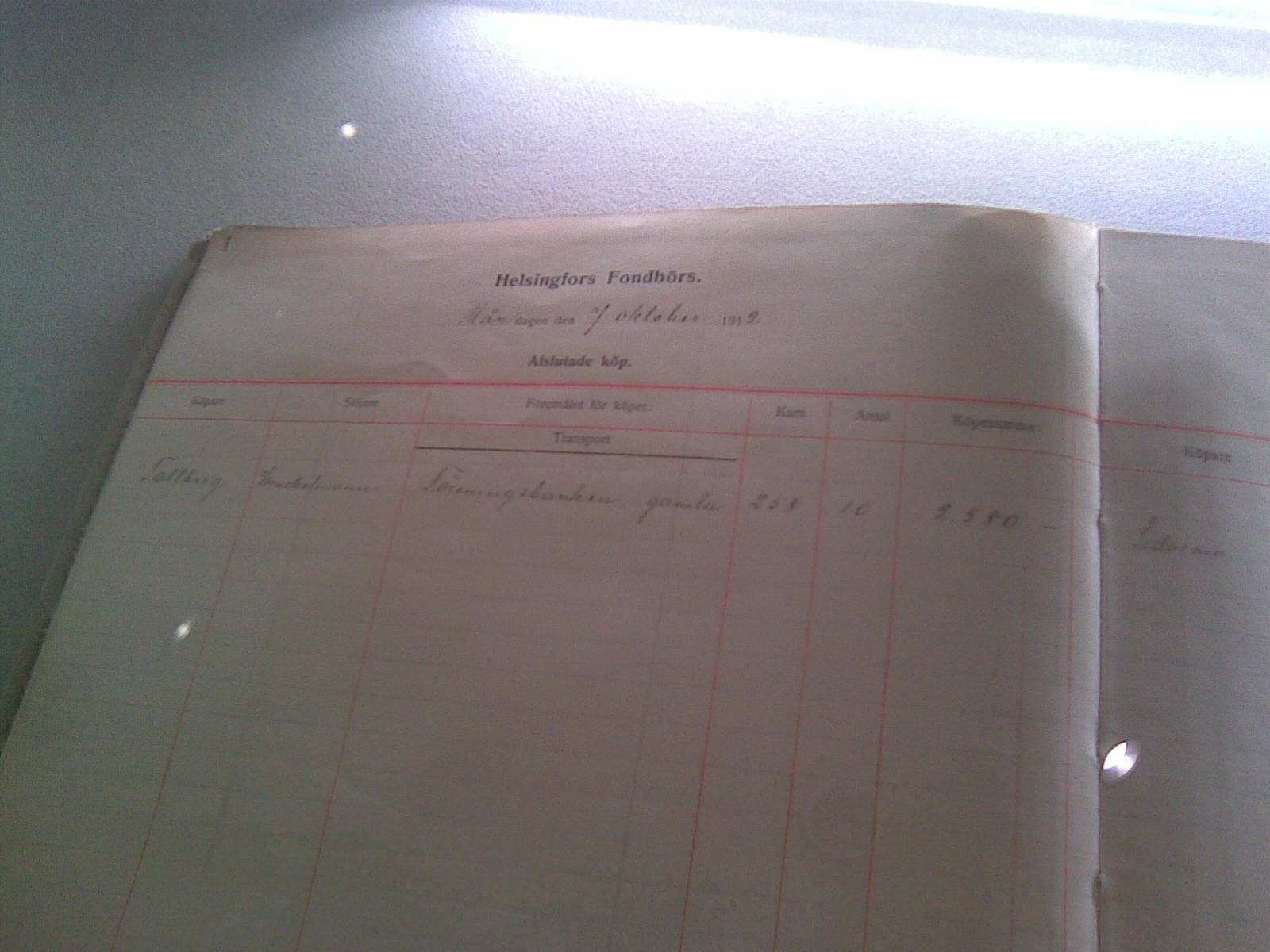 Helsinki Stock Exchange record of the first day of trading 7 October 1912. Seen in Rahamuseo (Bank of Finland Museum), 2013.